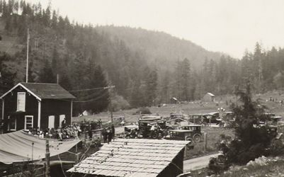 Community picnic at the Tiller Ranger Station in Tiller, Oregon, 1928. The photo was taken at the east end of the ranger station. The original Forest Service district office can be seen at the left of photo.